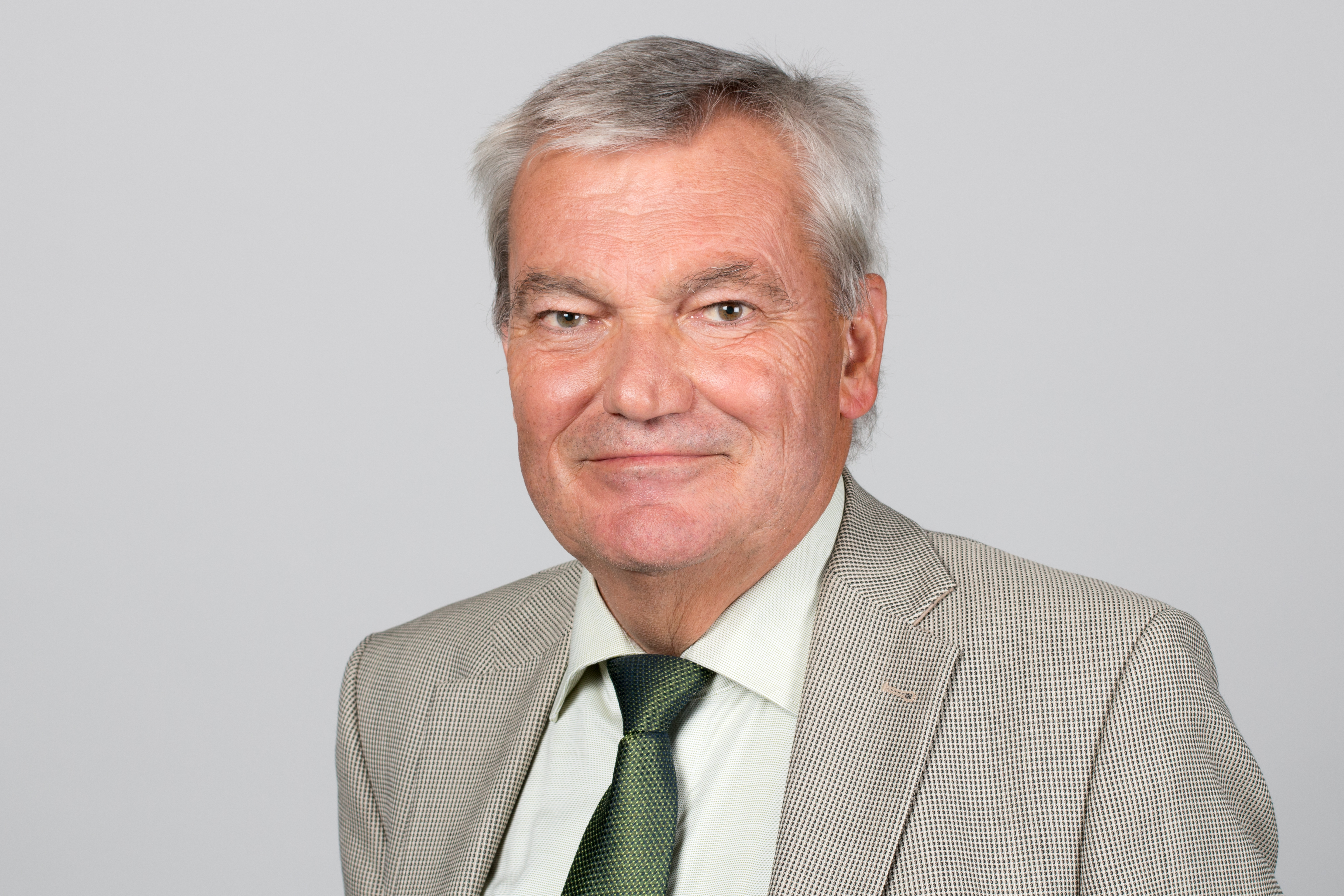 Heinz Wiese MdB, CDU/CSU